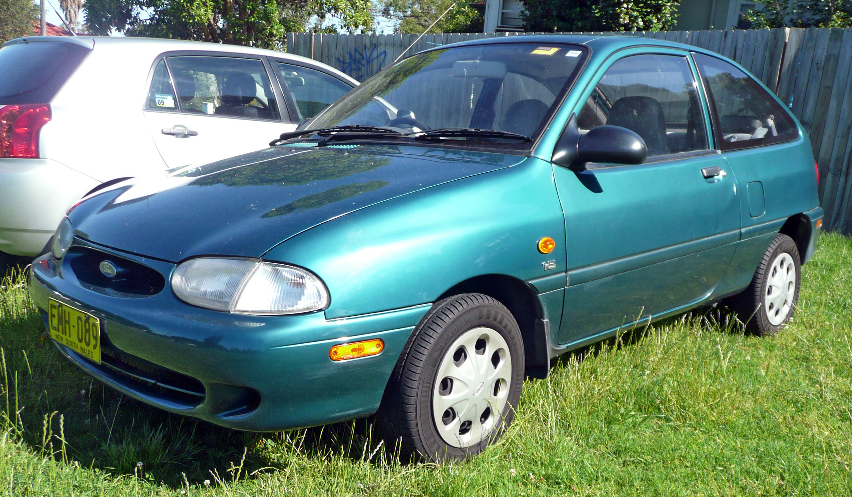 1997 Ford Festiva (WD) Trio 3-door hatchback. Photographed in Gymea, New South Wales, Australia.